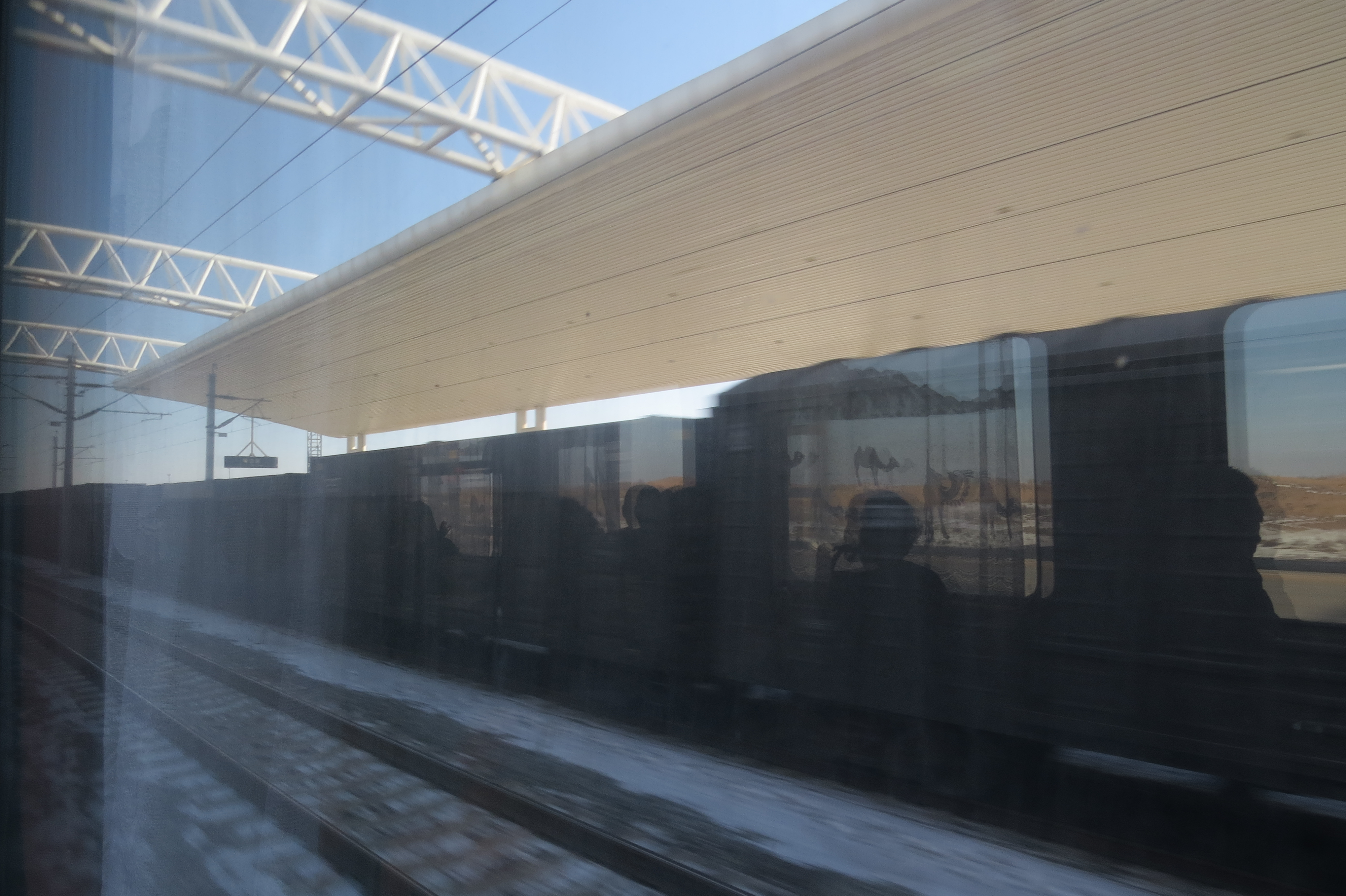 Taken from Z70.